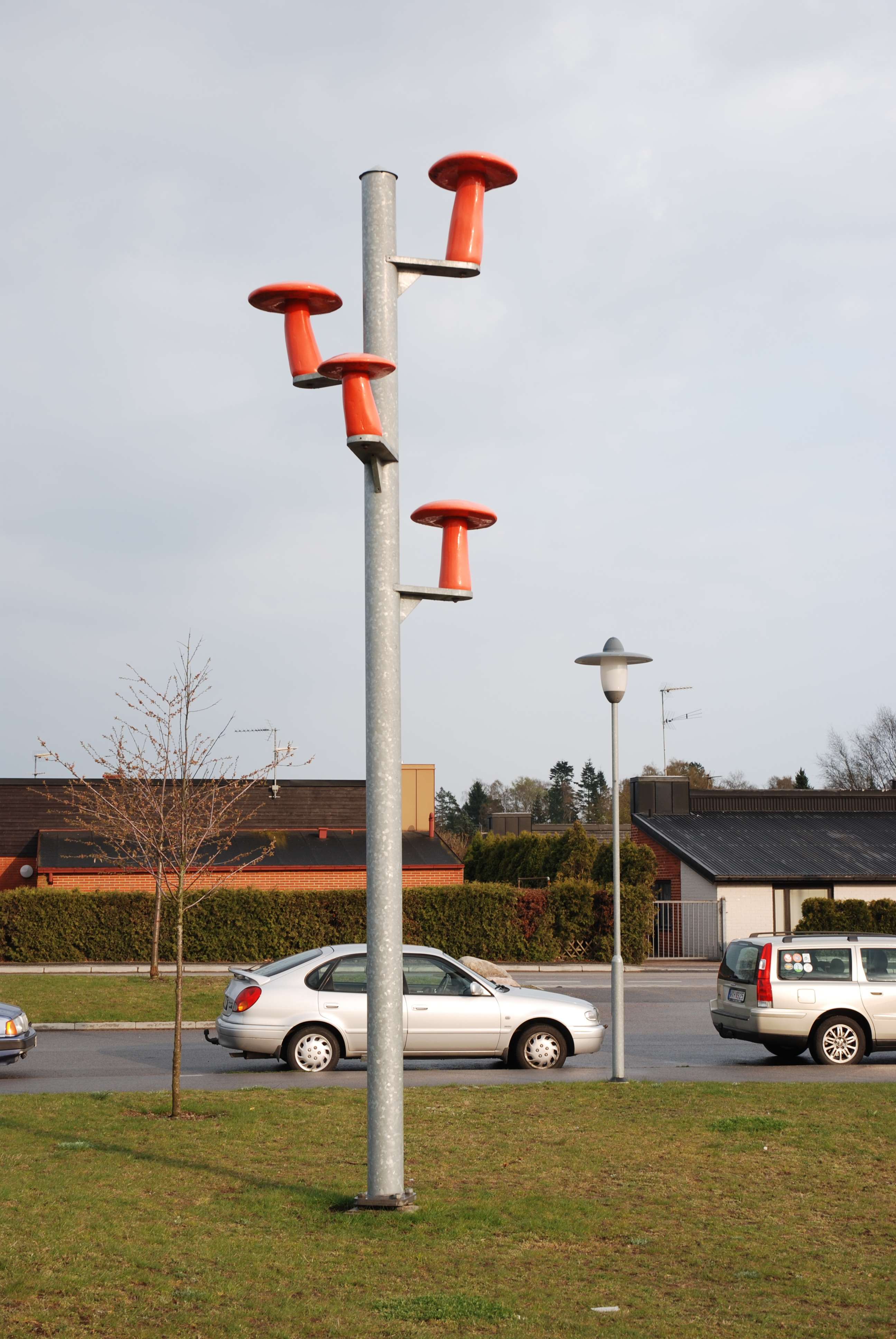 Truls Melin´s Paddehattar, Genarp, Sweden